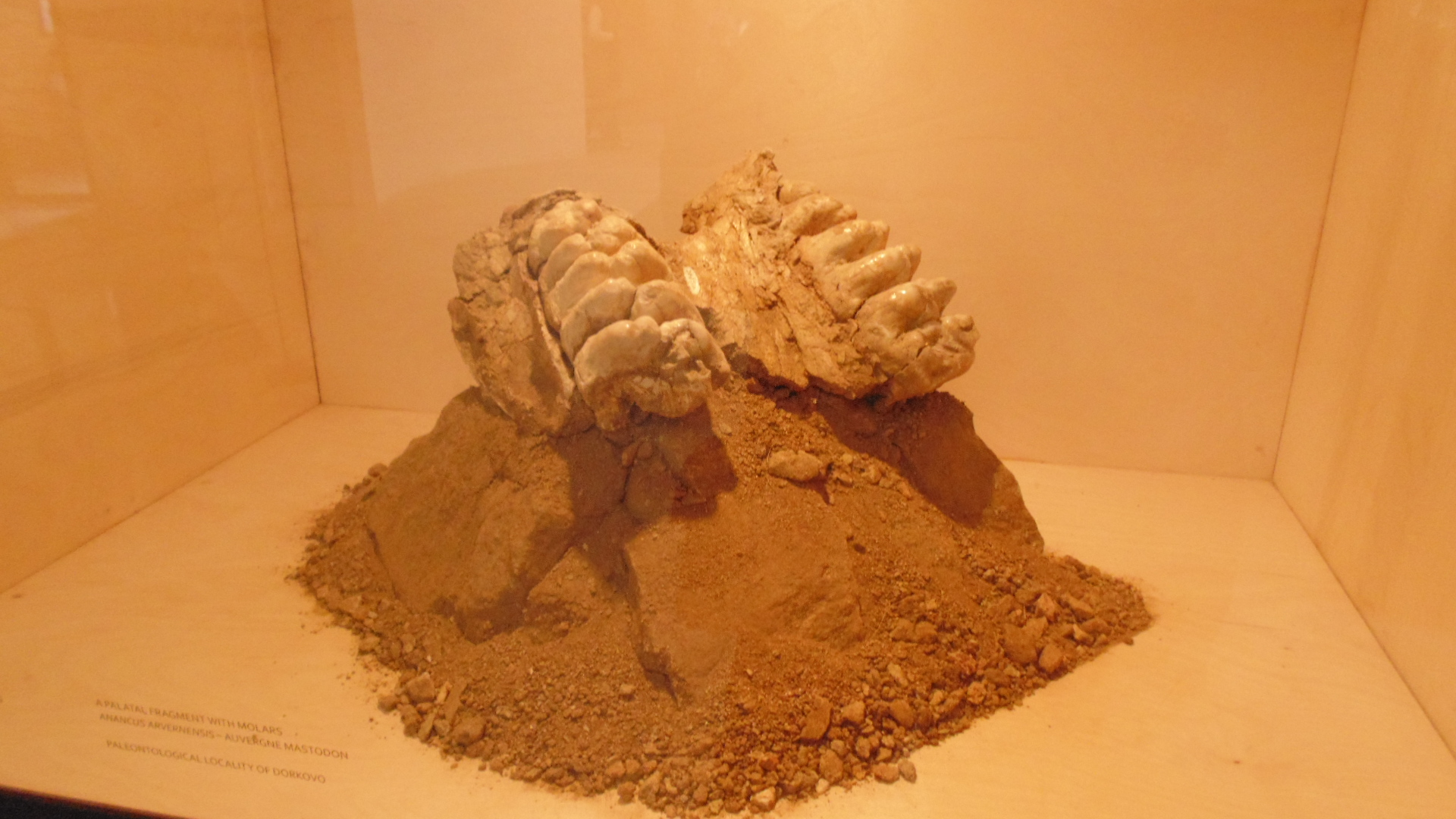 Park Pliocene epoch, Dorkovo